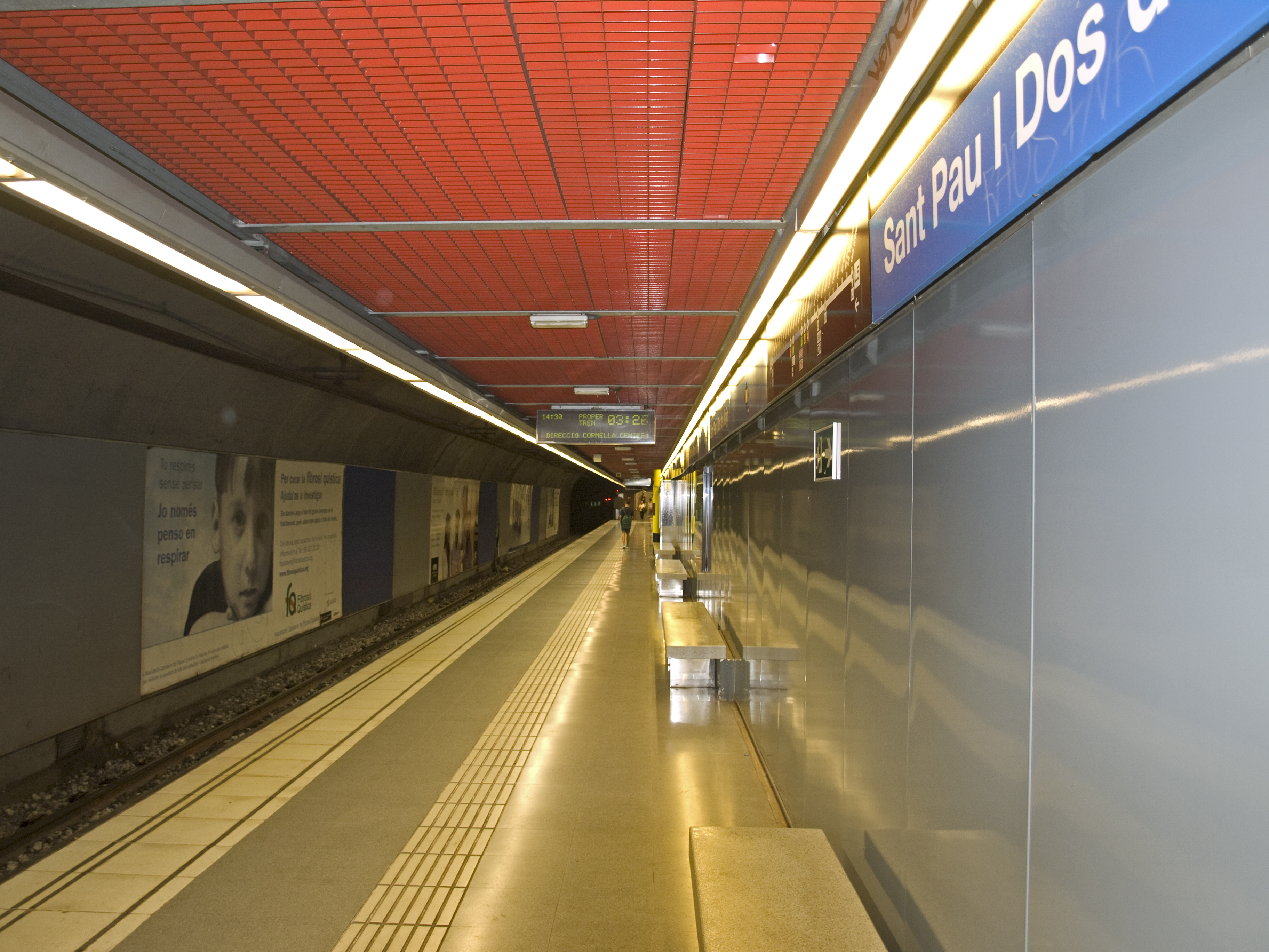 Sant Pau-Dos de Maig station, line L5, westound platform, Barcelona Metro